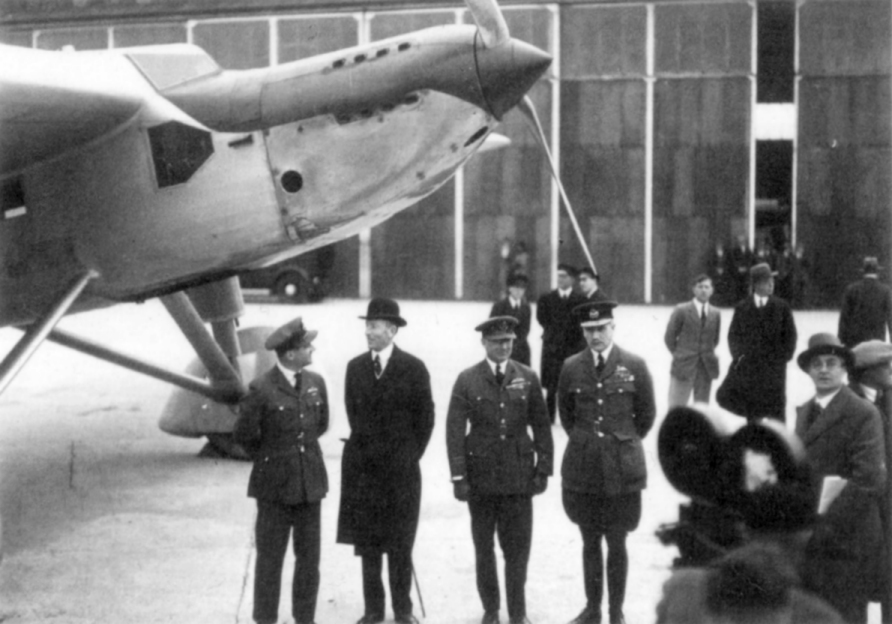 Flt Lt Gilbert Nicholetts, Lord Londonderry, Sqn Ldr Oswald Gayford and MRAF Sir John Salmond standing to starboard of Fairey Long Range Monoplane at Farnborough after its record-breaking return from the Cape